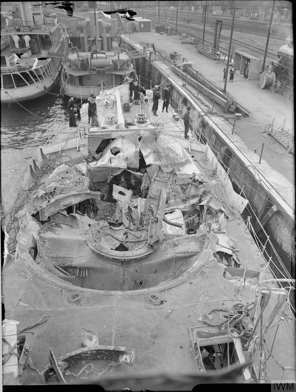 The Royal Navy during the Second World War A view from the bridge showing the damage to HMS ESCAPADE at Greenock. Damage sustained from a premature mortar bomb explosion on 20 September. Note the damaged forward 4.7 inch gun.